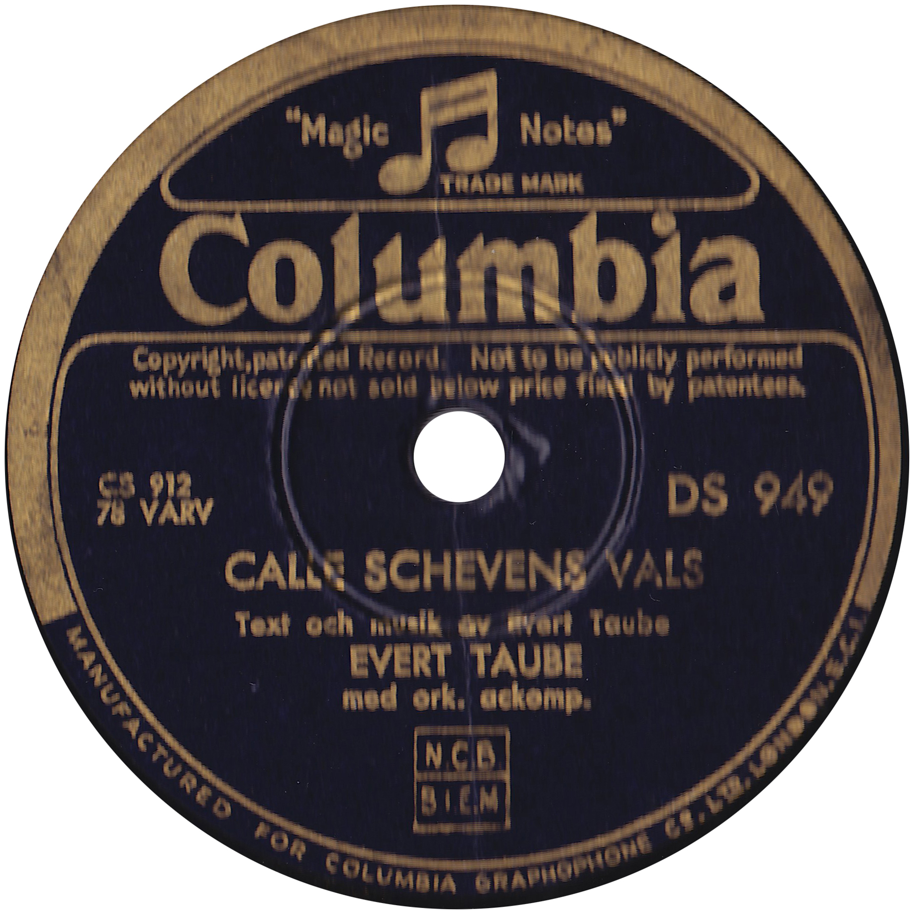 Record label Calle Schewens vals (Evert Taube)